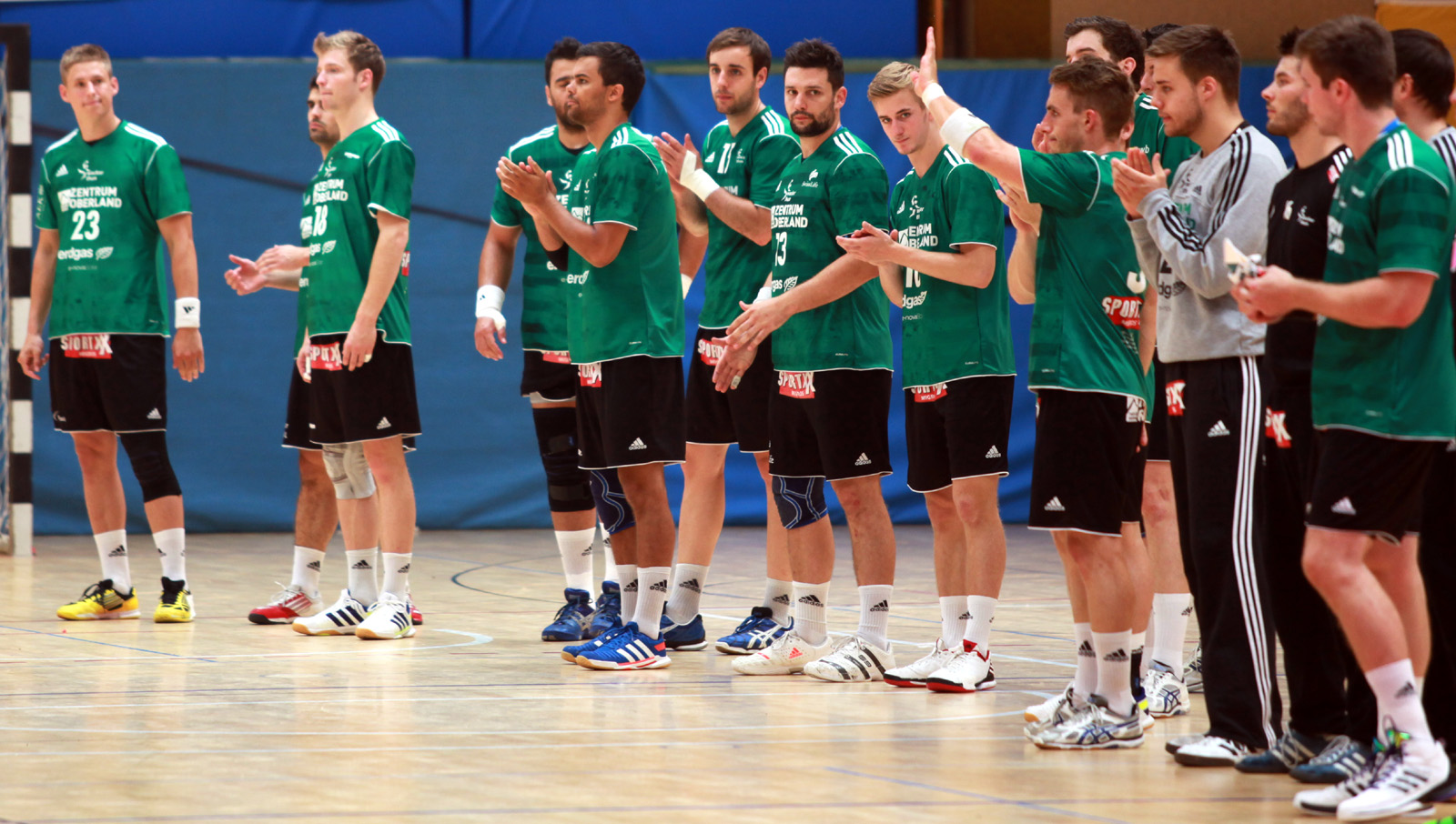 The team of Wacker Thun, on August 18th, 2012 in Ehingen (Germany), during the Sparkassen Cup (formerly known as Schlecker Cup).